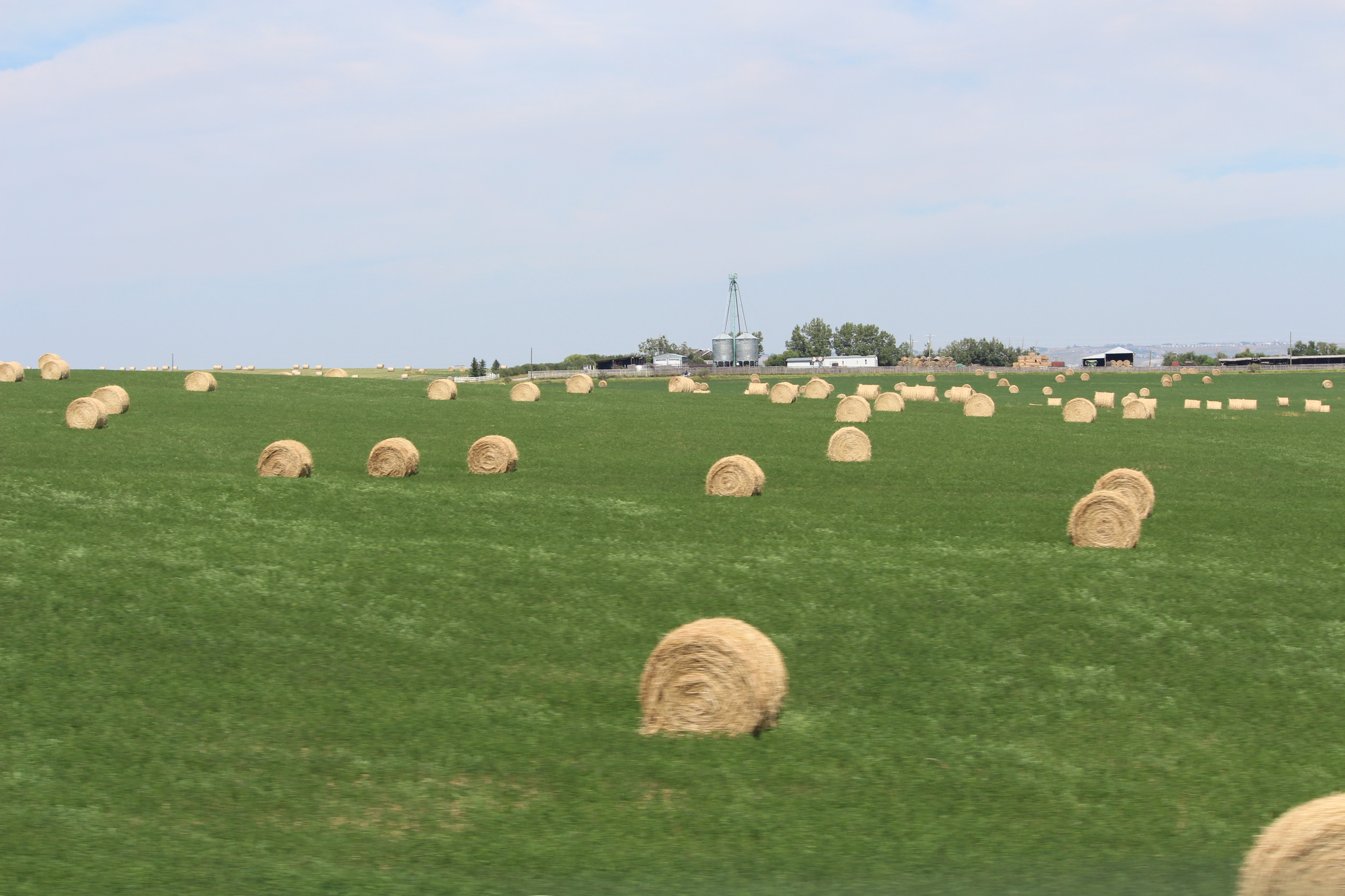 Round hay bales in Alberta, on the road betwen Calgary and Banff, Canda